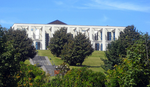 German ambassador's residence on Reservoir Road, NW in Washington, D.C.